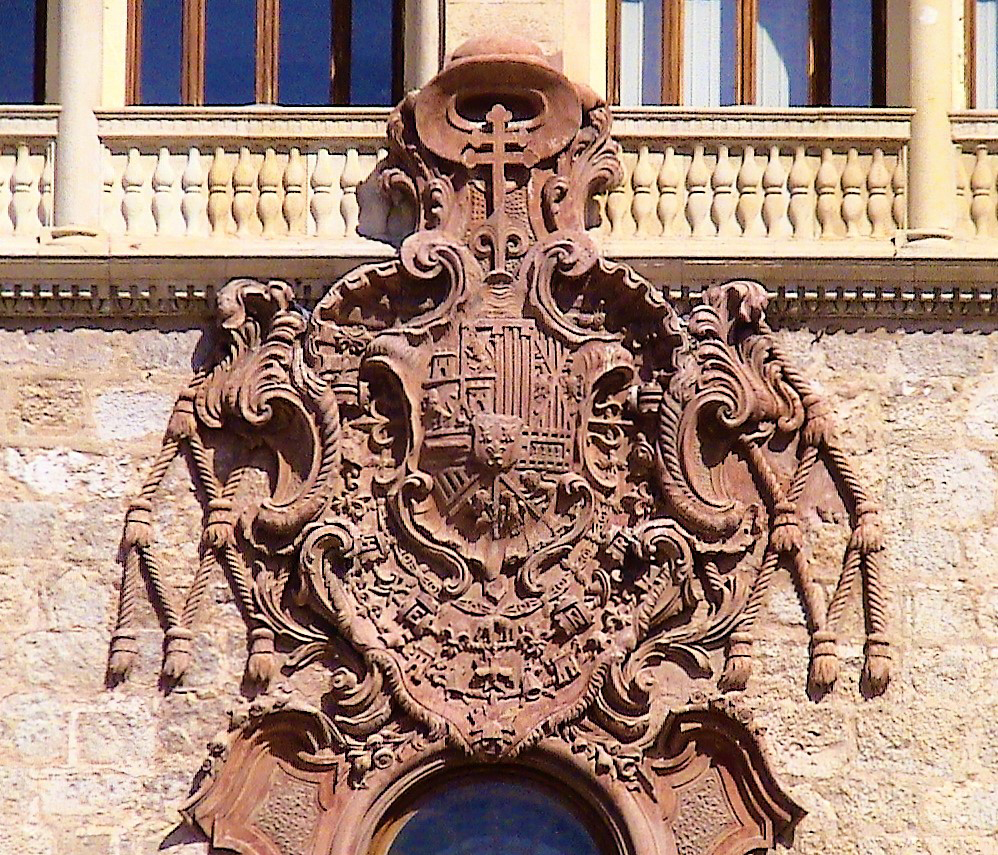 Terracotta shield Cardinal Infante Luis Antonio de Borbón (son of Philip V), located on the main facade of the Archbishop's Palace of Alcalá de Henares (Community of Madrid - Spain).